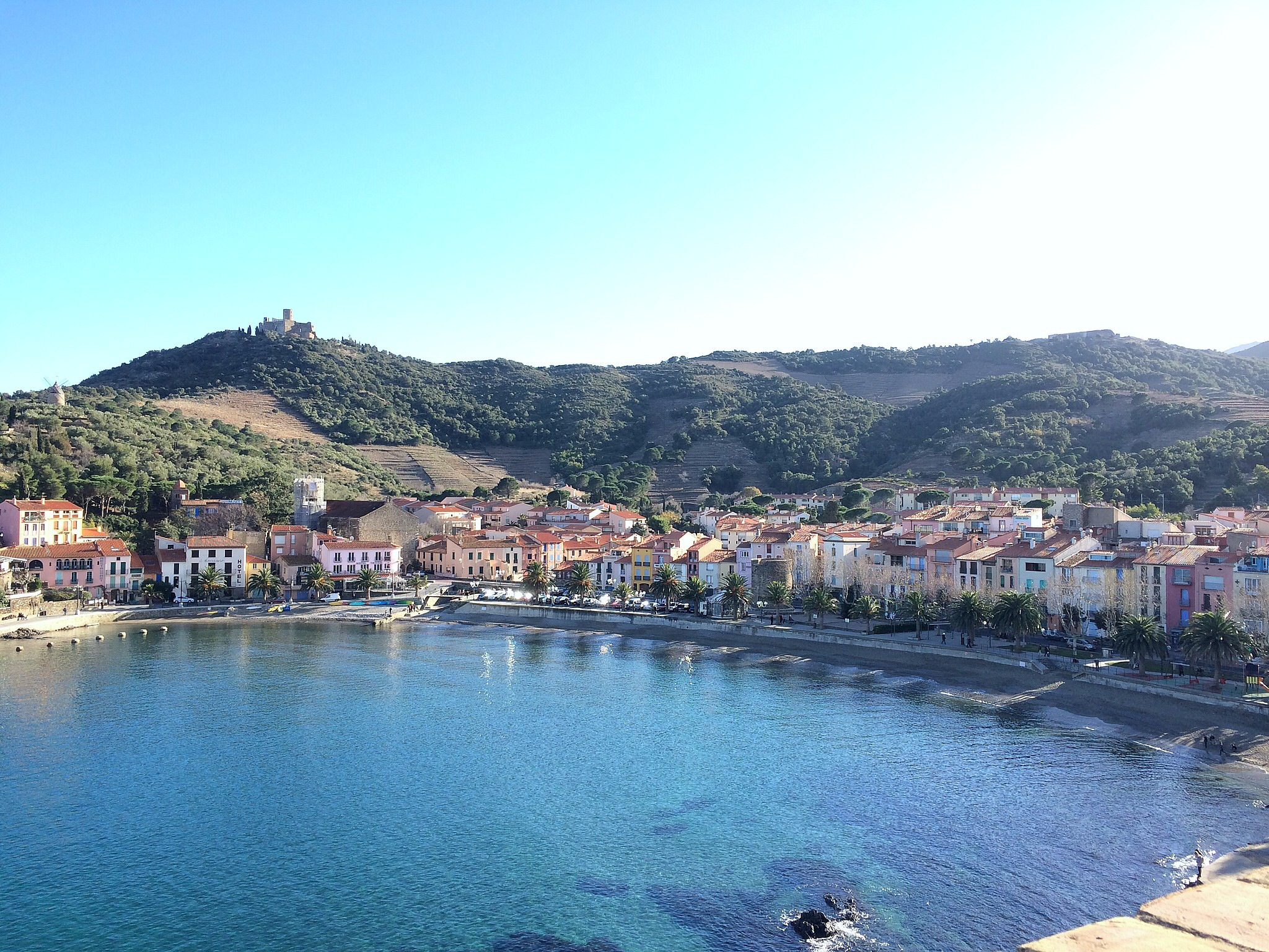 Collioure from the Royal Castle